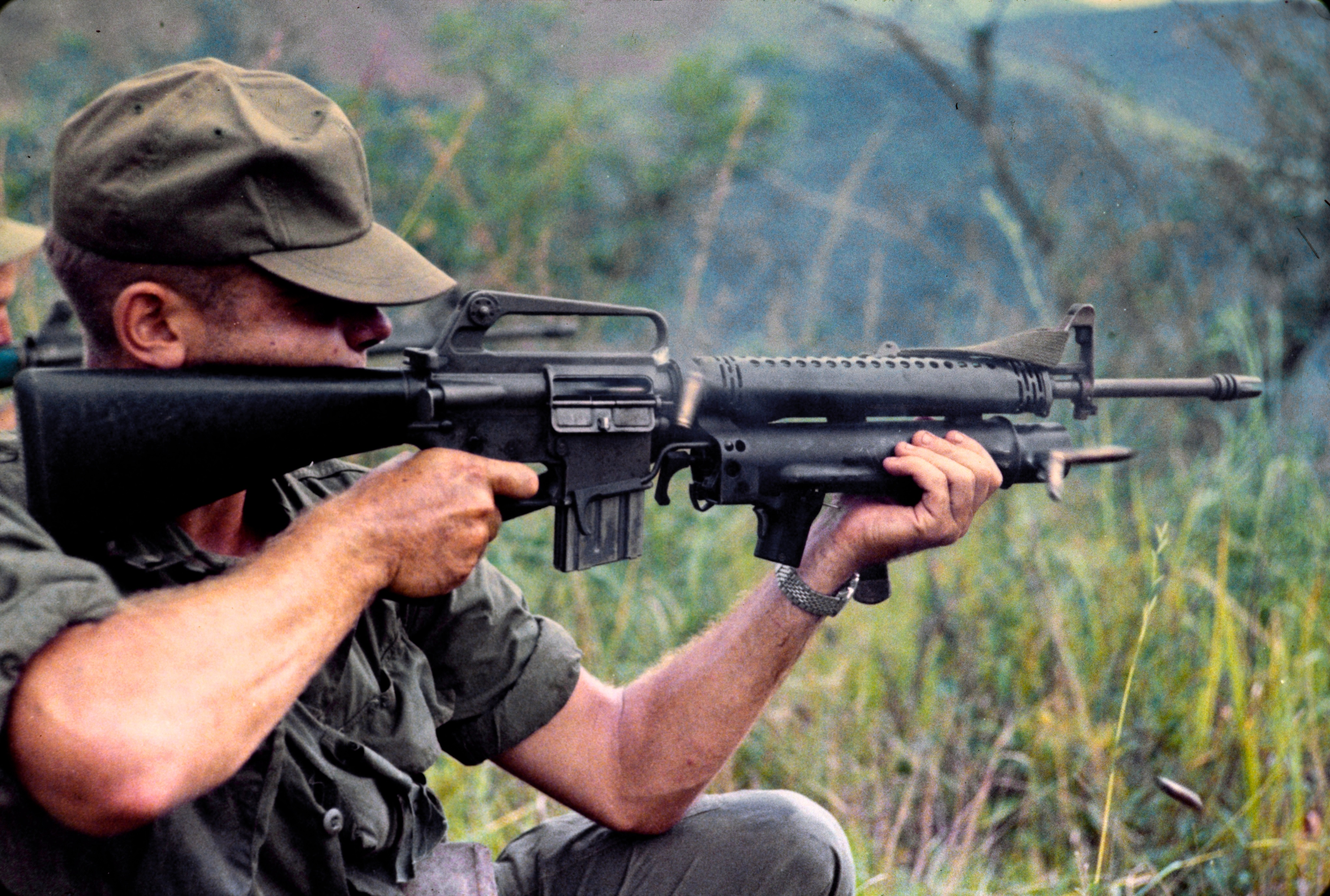 SP4 Henry I. Willey (N. Woodstock, NC) recons by fire using his M-148 XM (over and under) rifle. Earlier, the company received sniper fire from the valley below. His company; Company “A”, 2nd Battalion, 502nd Infantry, 1st Brigade, 101st Airborne Division, was moving to a mountain top to secure a landing zone. This was mission was a part of Operation “Cook” conducted in Quang Ngai Province, Republic of Vietnam.